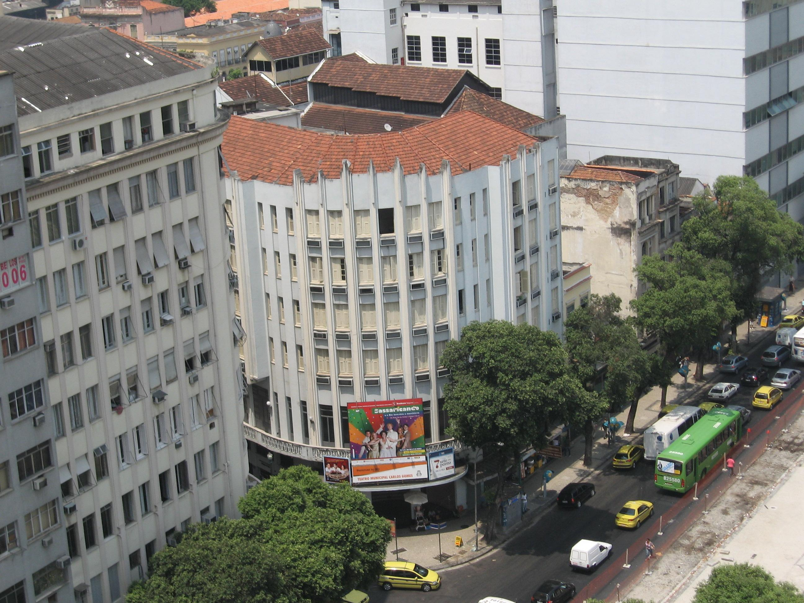 Carlos Gomes Theather-Rio de Janeiro-Brazil